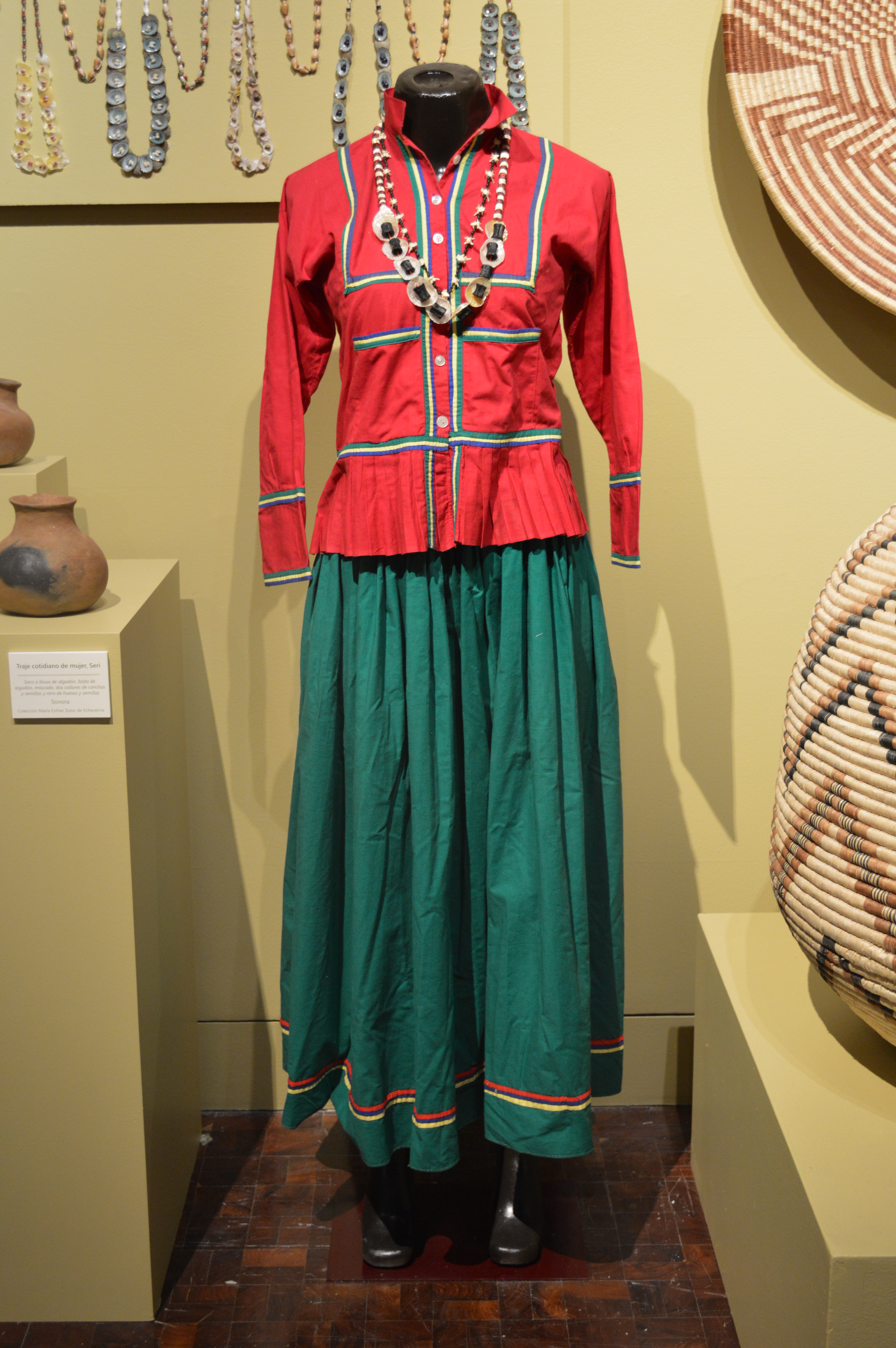 Seri woman's everyday dress from Sonora at the El Norte, su materia, su artesanía at the Museo de Arte Popular, Mexico City